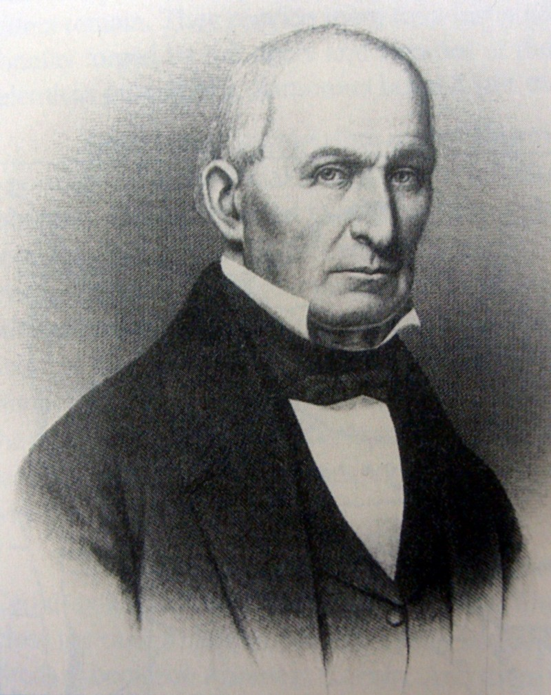 Portrait of Daniel Dobbins